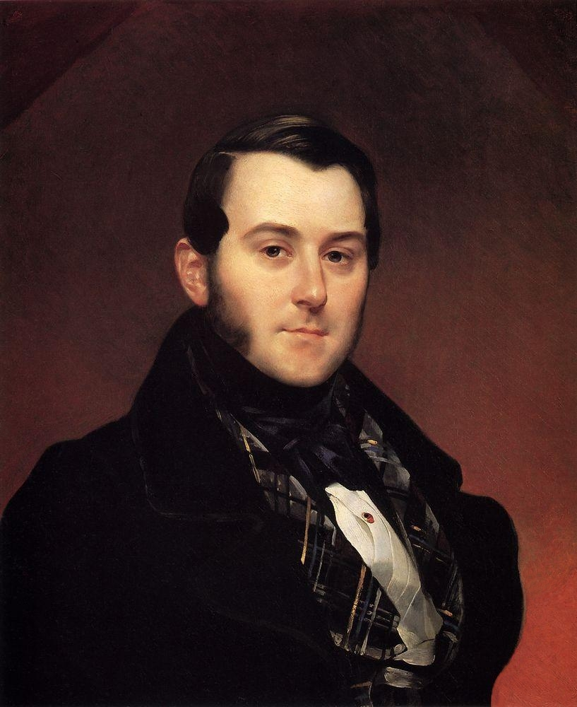 Portrait of I. A. Beck (1807–1842), about 1839. Oil on canvas. 67 × 58 cm.